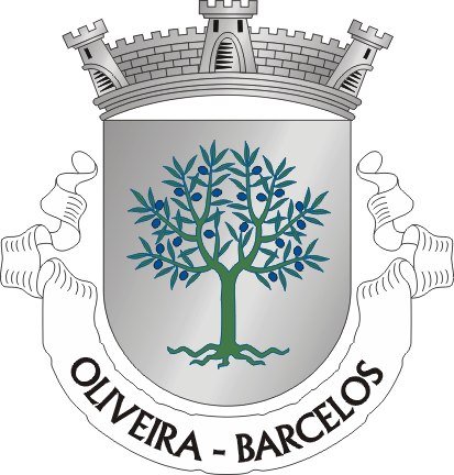 Crest of Oliveira, a parish in the municipality of Barcelos (Portugal)